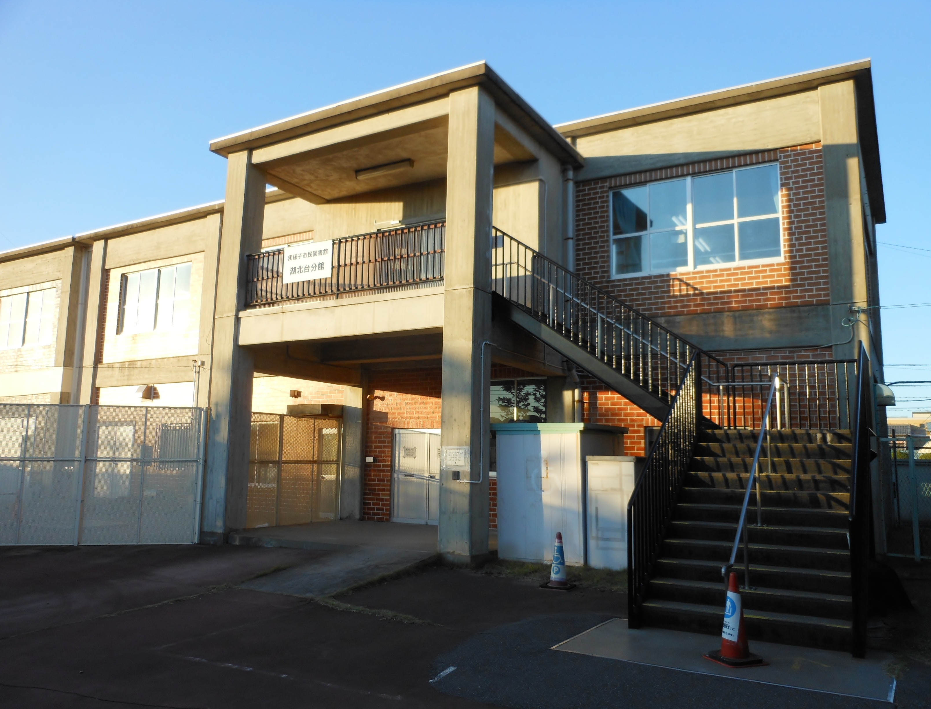 This is the Abiko City Library Kohokudai Sub Library in Abiko, Chiba, Japan.